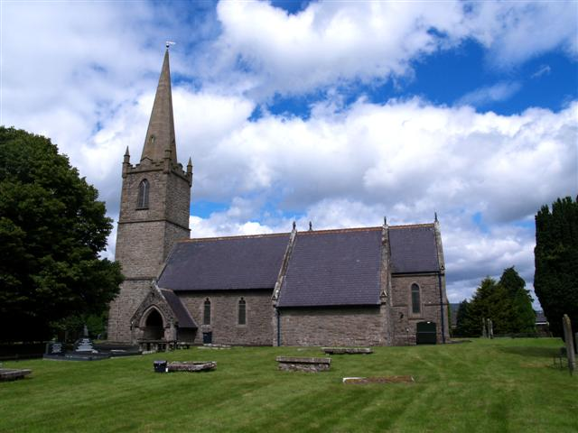 St Columbas Catholic Church. It is in the Parish of Ballinascreen and located in Straw